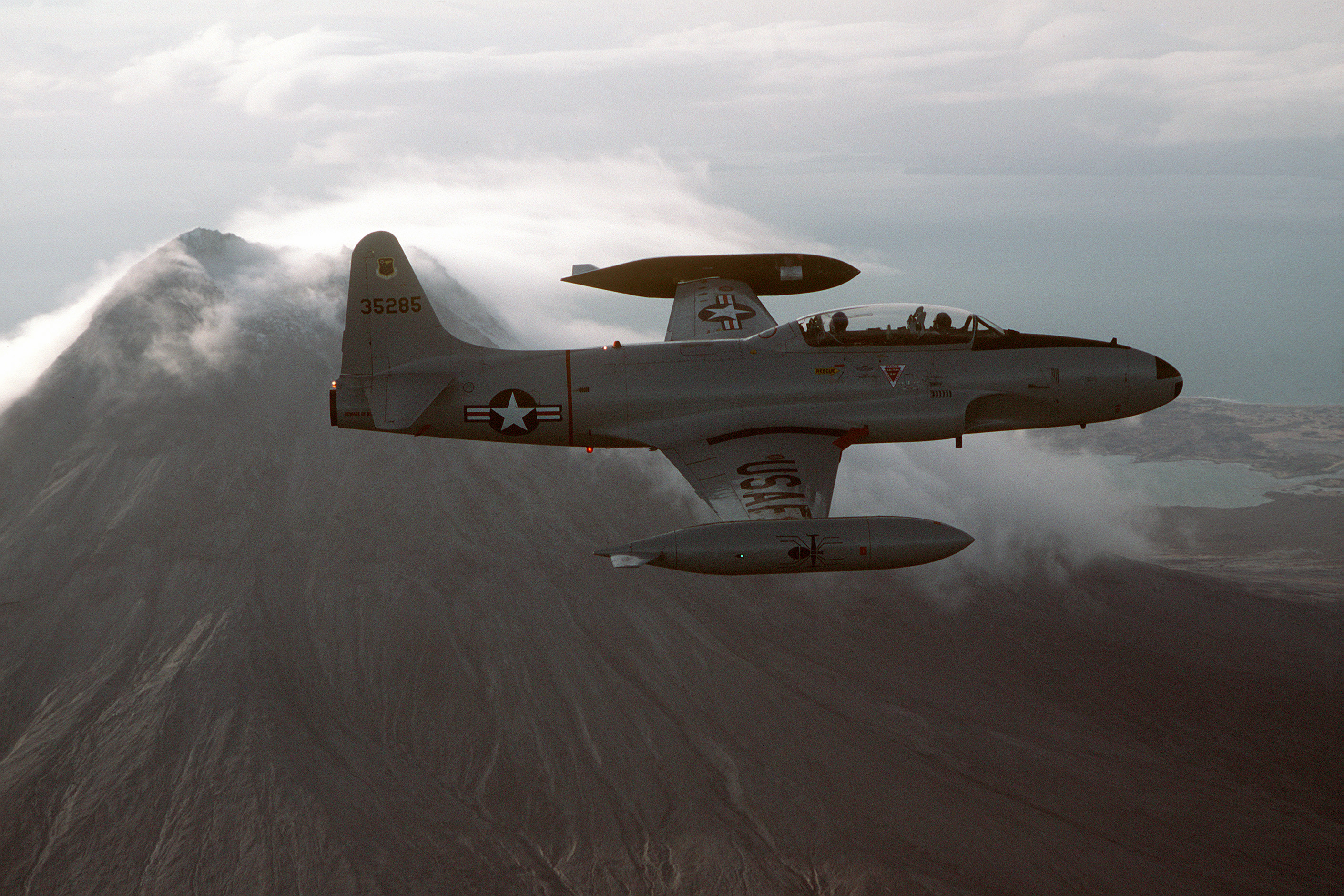 A U.S. Air Force Lockheed T-33A-1-LO Shooting Star aircraft (s/n 53-5285) of the 5021st Tactical Operations Squadron, Elmendorf Air Force Base, Alaska (USA), on 1 June 1984. This aircraft was retired to the MASDC as TC1369 on 14 March 1988.